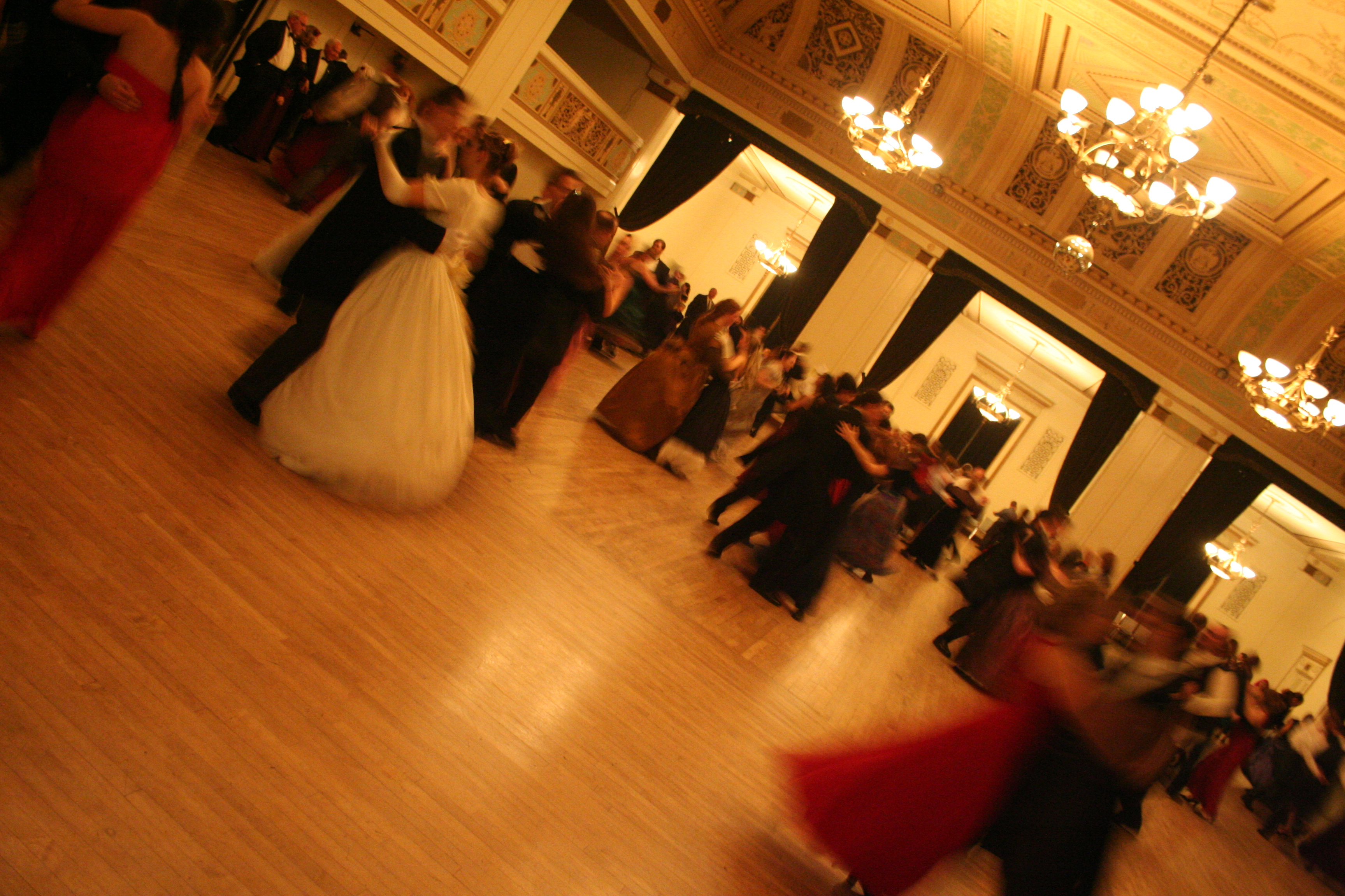 Photographed by and copyright of (c) David Corby (User:Miskatonic, uploader) 2006 Ballroom dancing. Gaskell Ball in Oakland California.